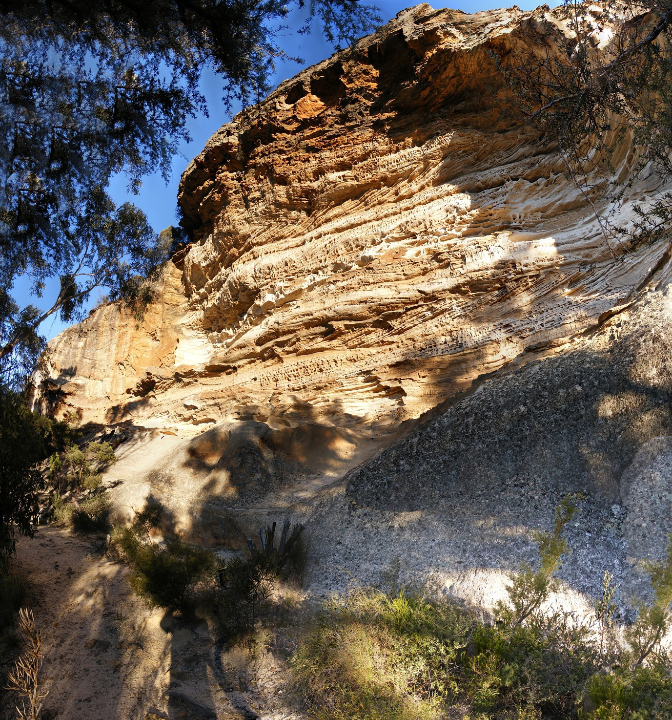 This was taken along the grand canyon walk in the blue mountains commencing at the Evans look out. EDIT by AQ: actually that's not right. The Wind Eroded Cave is accessed via Hat Hill Road leading to the Anvil Rock lookout, which can be seen from the Grose Valley, which in turn can be accessed via the Grand Canyon Walk. But there's no way this photo can be taken from the grand canyon walk.